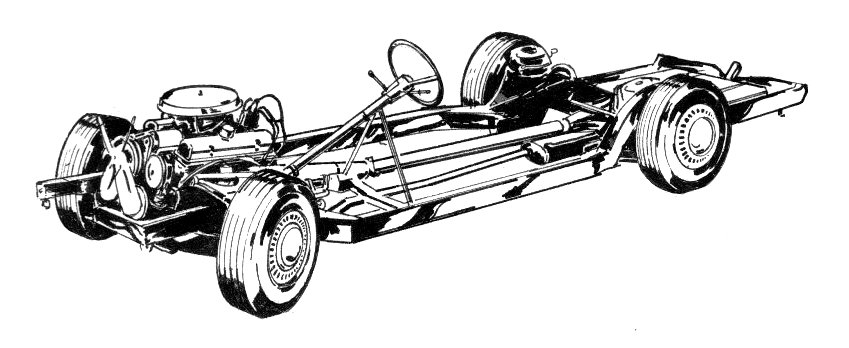 line art drawing of chassis.